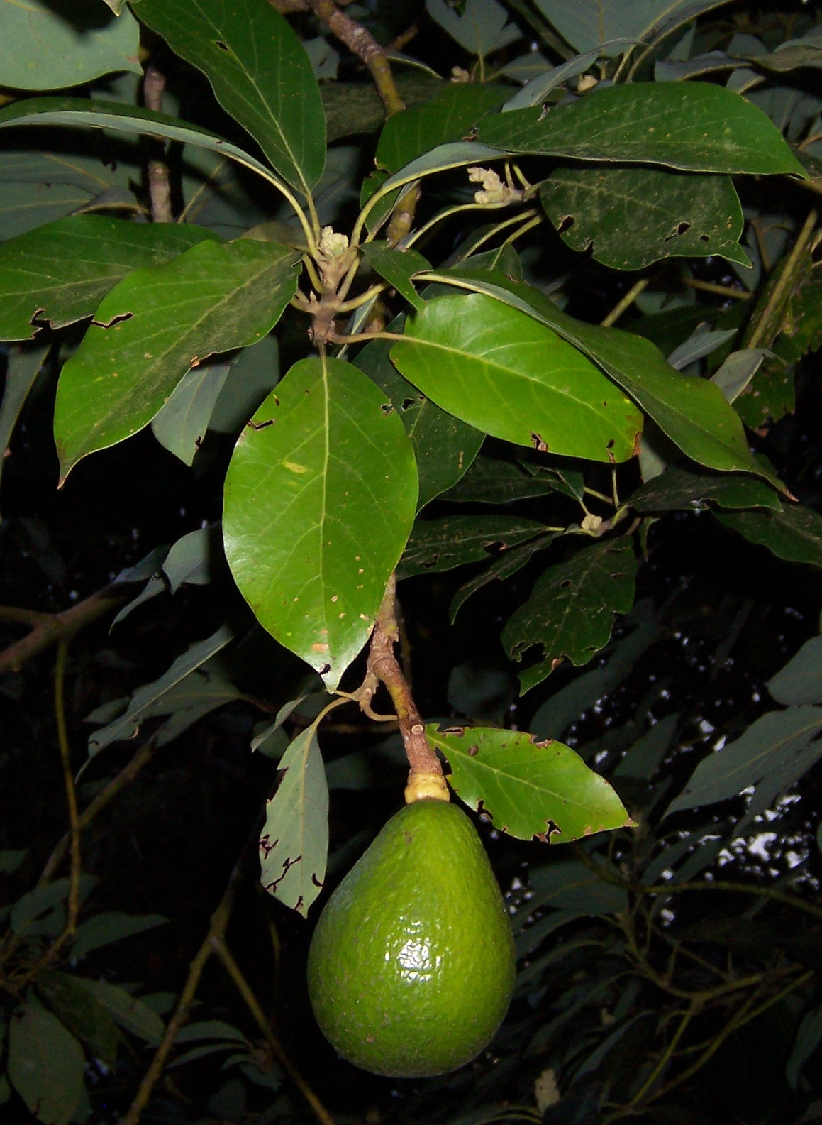 Avocado (Persea americana) - fruit on the tree, Réunion island